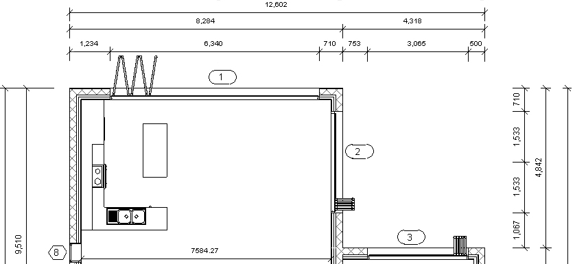 Aligned dimensions (architecture)